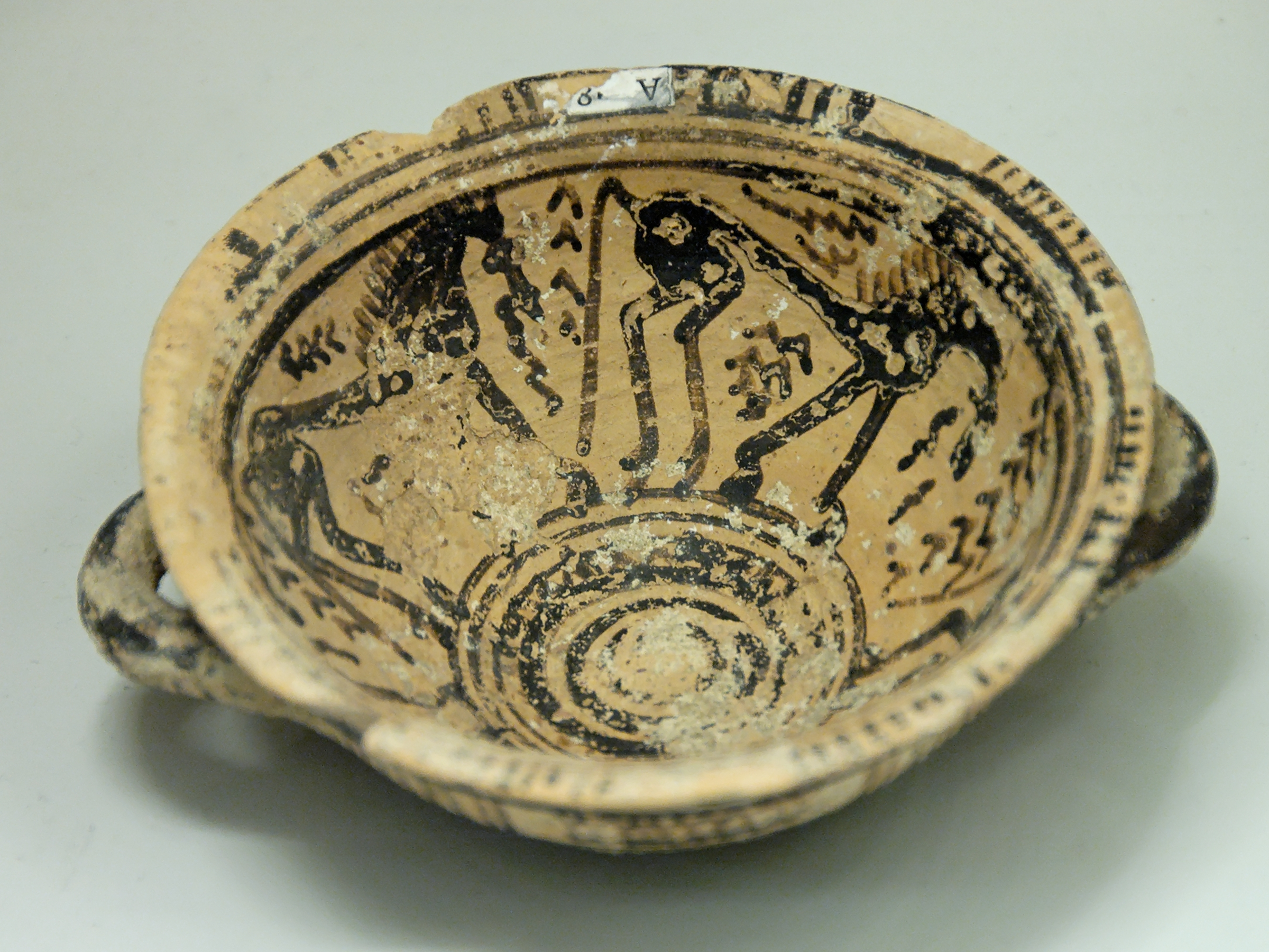 Protoattic skyphos with frieze of horses (interior) and geometric patterns (outside). Terracotta, 700 BC. From Phaleron, near Athens.